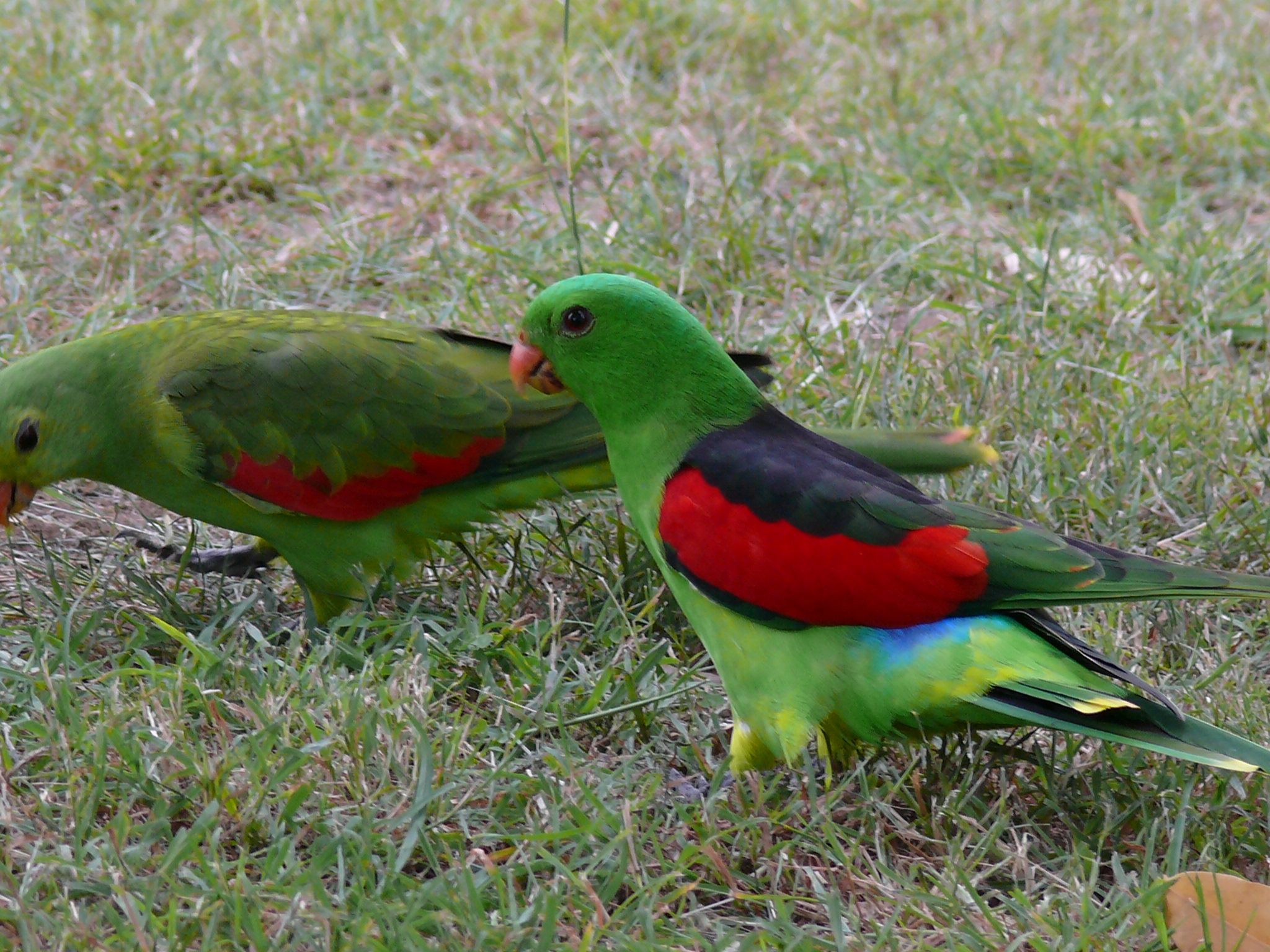 A pair of Red-winged Parrots walking on short grass. The female is on the left and the male is on the right.